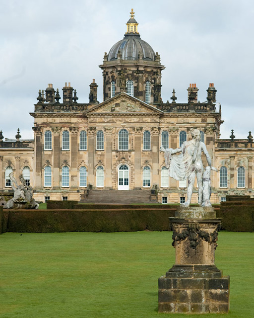 Castle Howard House